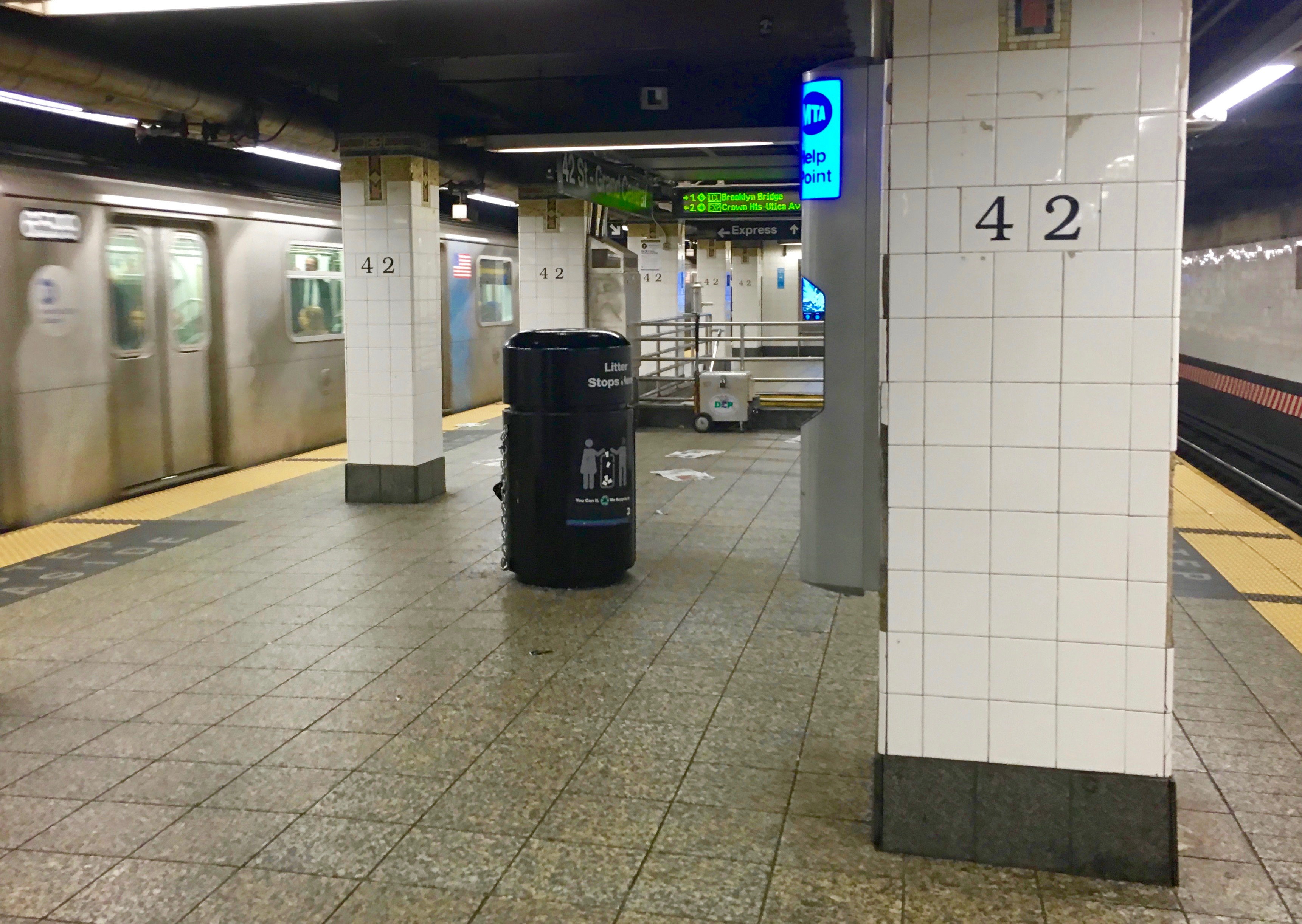 Downtown platform at 42nd Street on the Lexington Av 4/5/6 line.